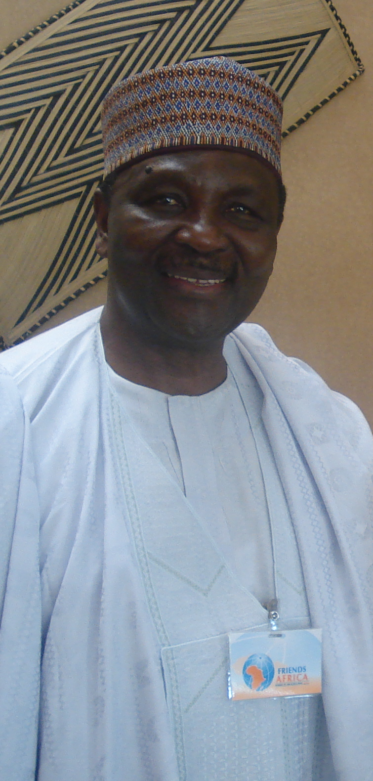 Former Nigerian President Yakubu Gowon during the Friends of Global fund Africa meeting in Kigali.